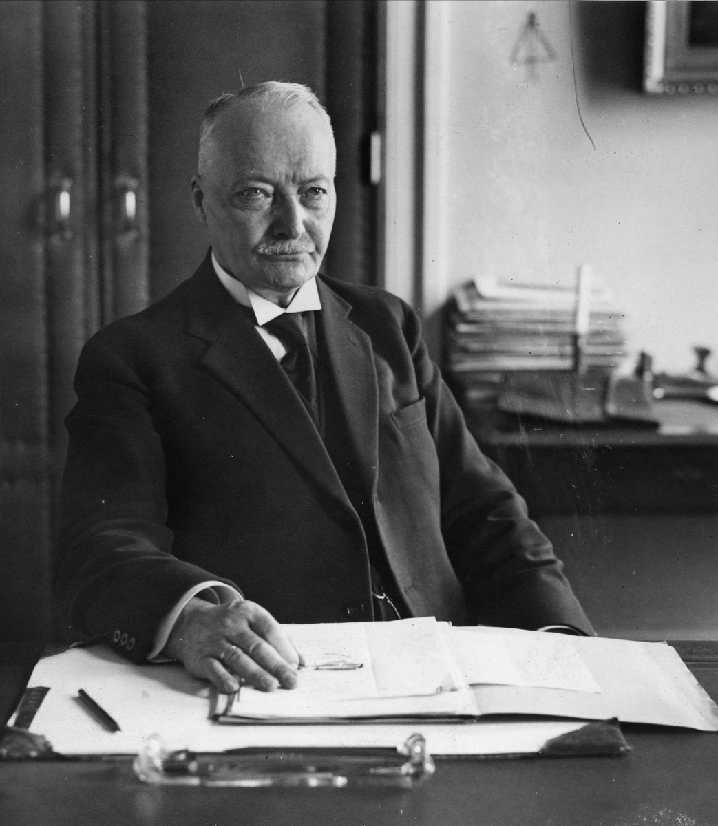 Sigvald Mathias Hasund